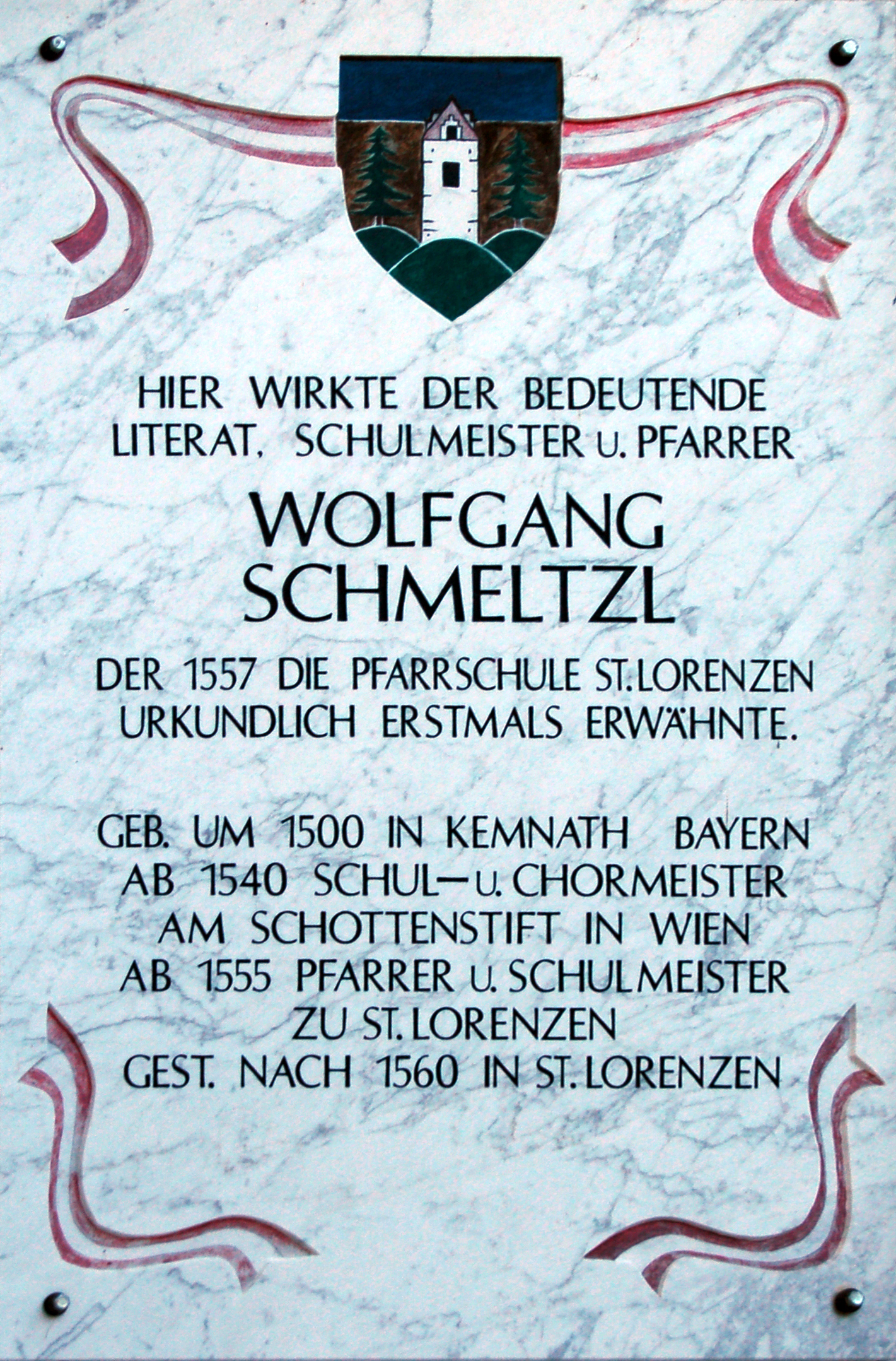 Plaque commemorating Wolfgang Schmeltzl. The plaque is located at the primary school house in St. Lorenzen am Steinfeld.